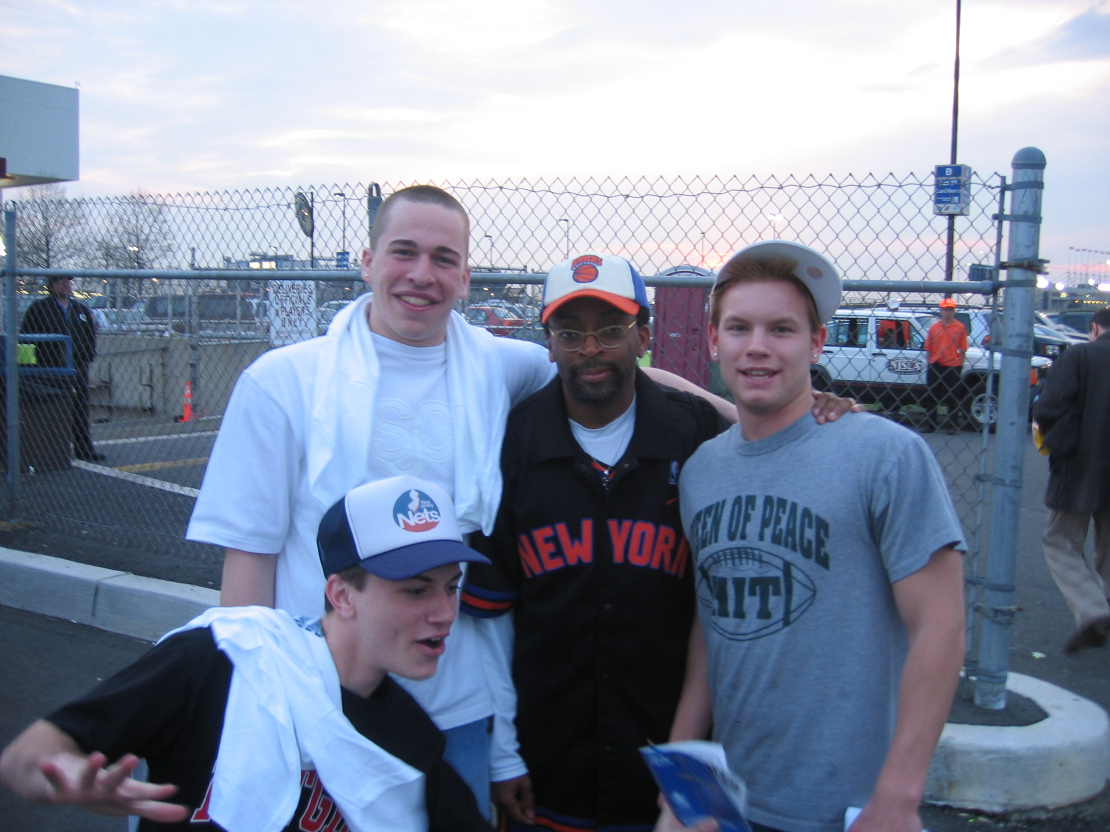 Picture taken outside Continental Airlines Arena, East Rutherford, NJ. 2004.